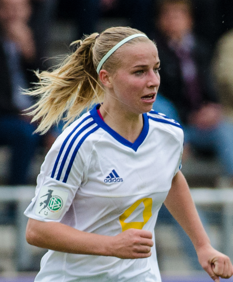 Match of the German Women's Football Bundesliga between 1.FFC Frankfurt and 1. FFC Turbine Potsdam, 2015-09-13